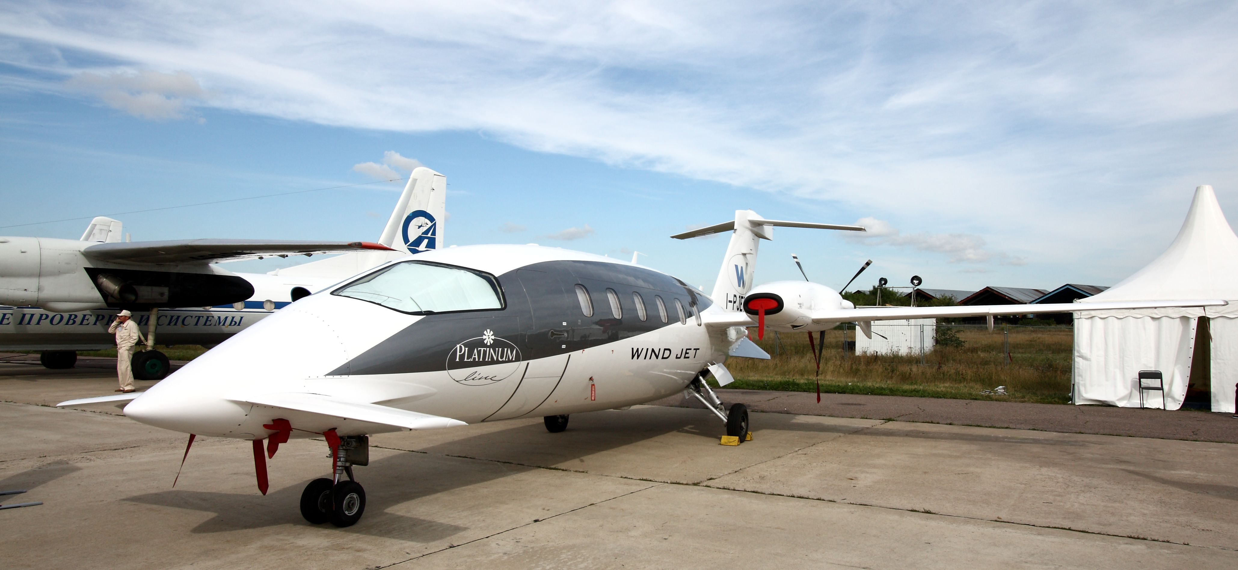 Piaggio P.180 Avanti (The international aerospace salon MAKS-2011)